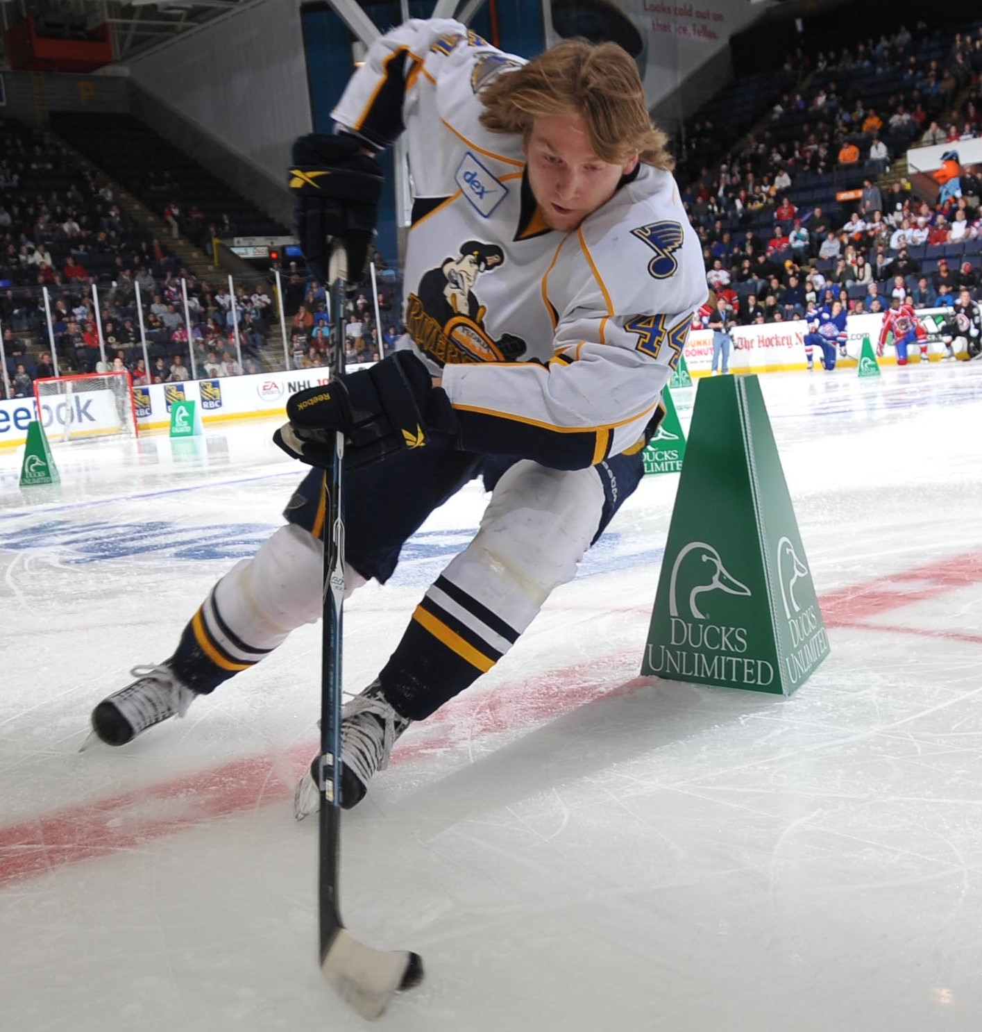 Jonas Junland during AHL skills competition 2010.